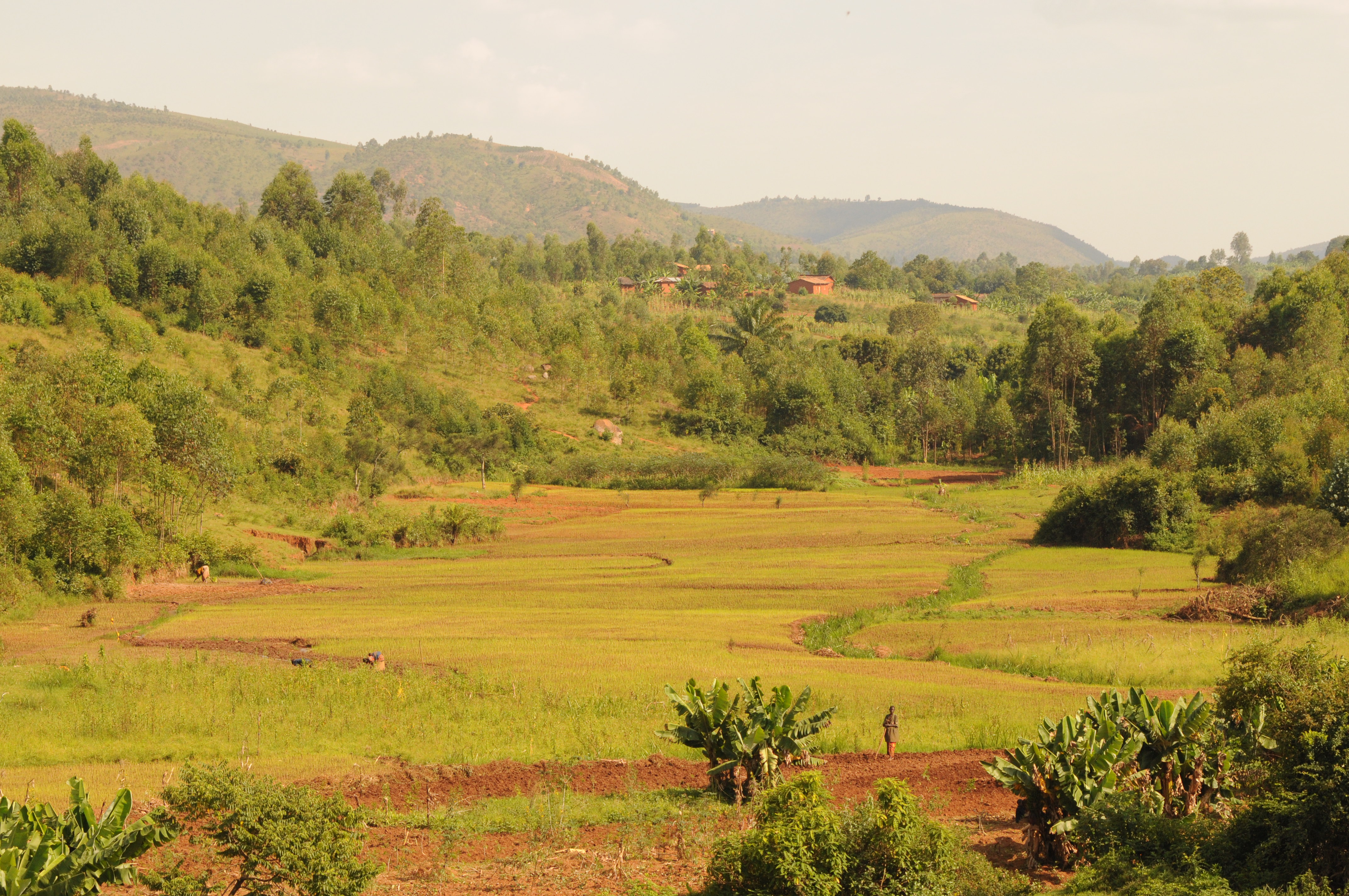 Burundi - Sanitation in Gitega / Assainissement à Gitega 2012